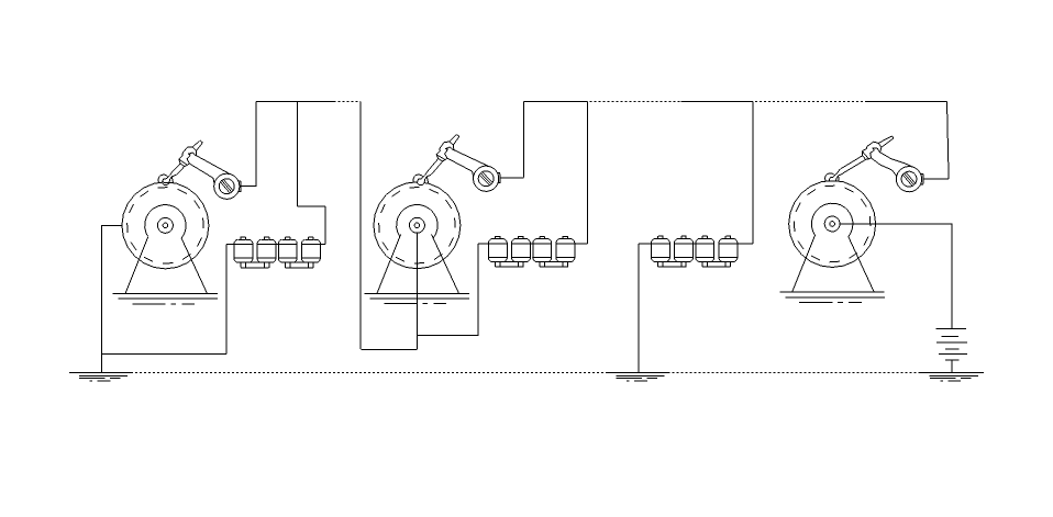 Based off of U.S. Patent 135,531, Thomas Edison Circuits for Chemical Telegraphs